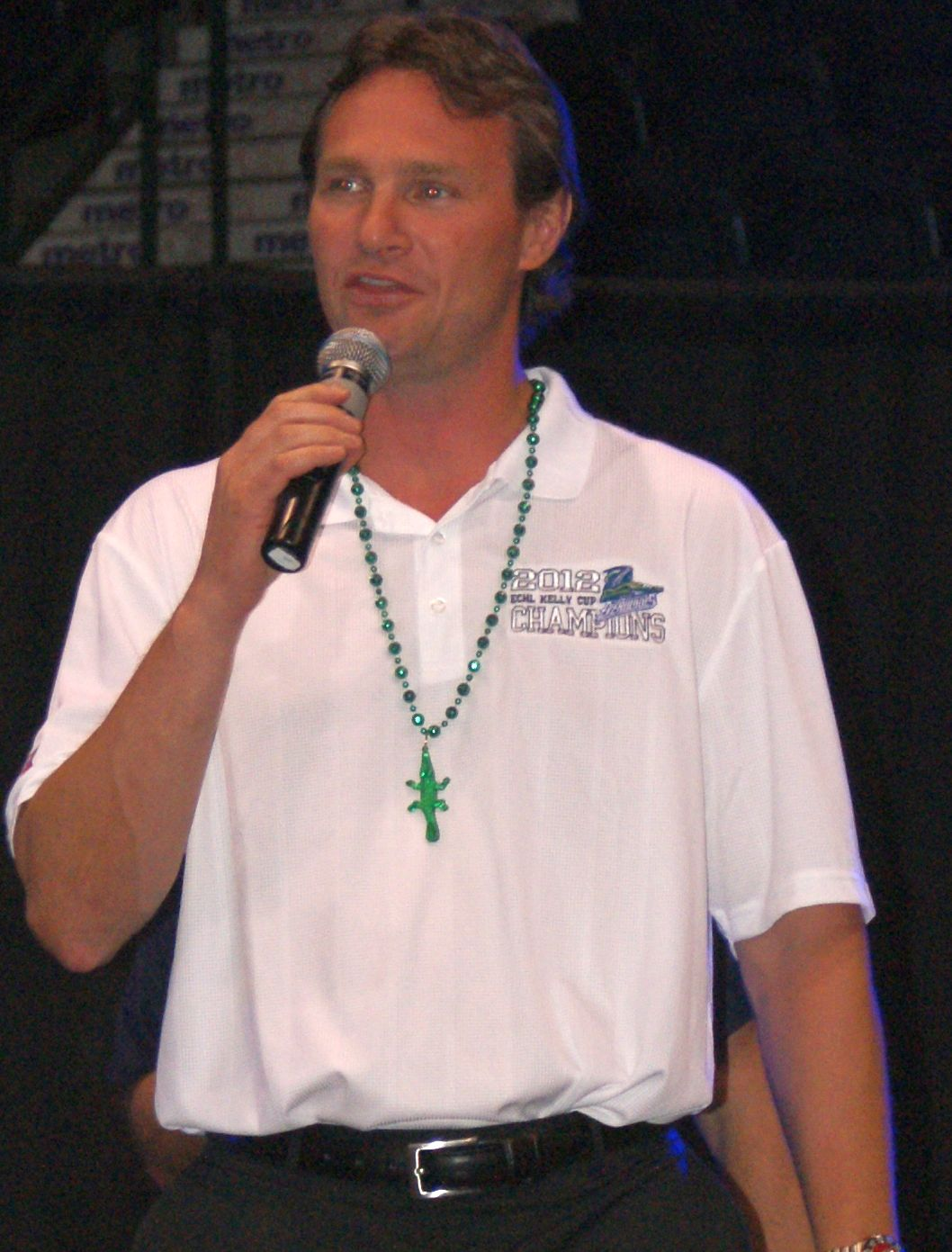 Coach Greg Poss of the Florida Everblades addresses the crowd at the team's Kelly Cup celebration